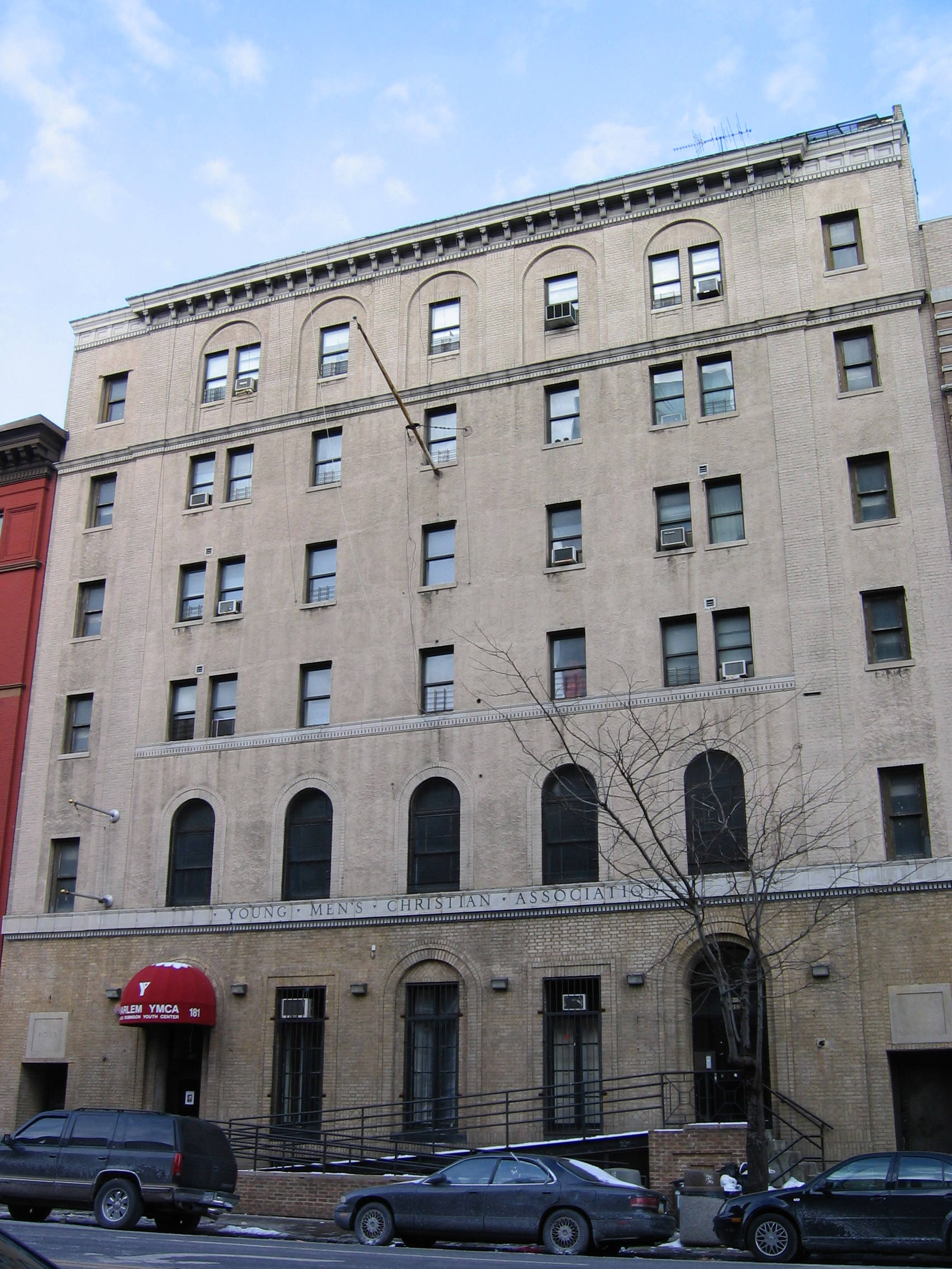 Original Harlem West 135th Street Branch YMCA, 181 West 135th Street, built 1918. Architect: John F. Jackson. This was the original Harlem YMCA, which later moved to a new building across 135th Street. Photo by User:AudeVivere, taken on January 16, 2006.